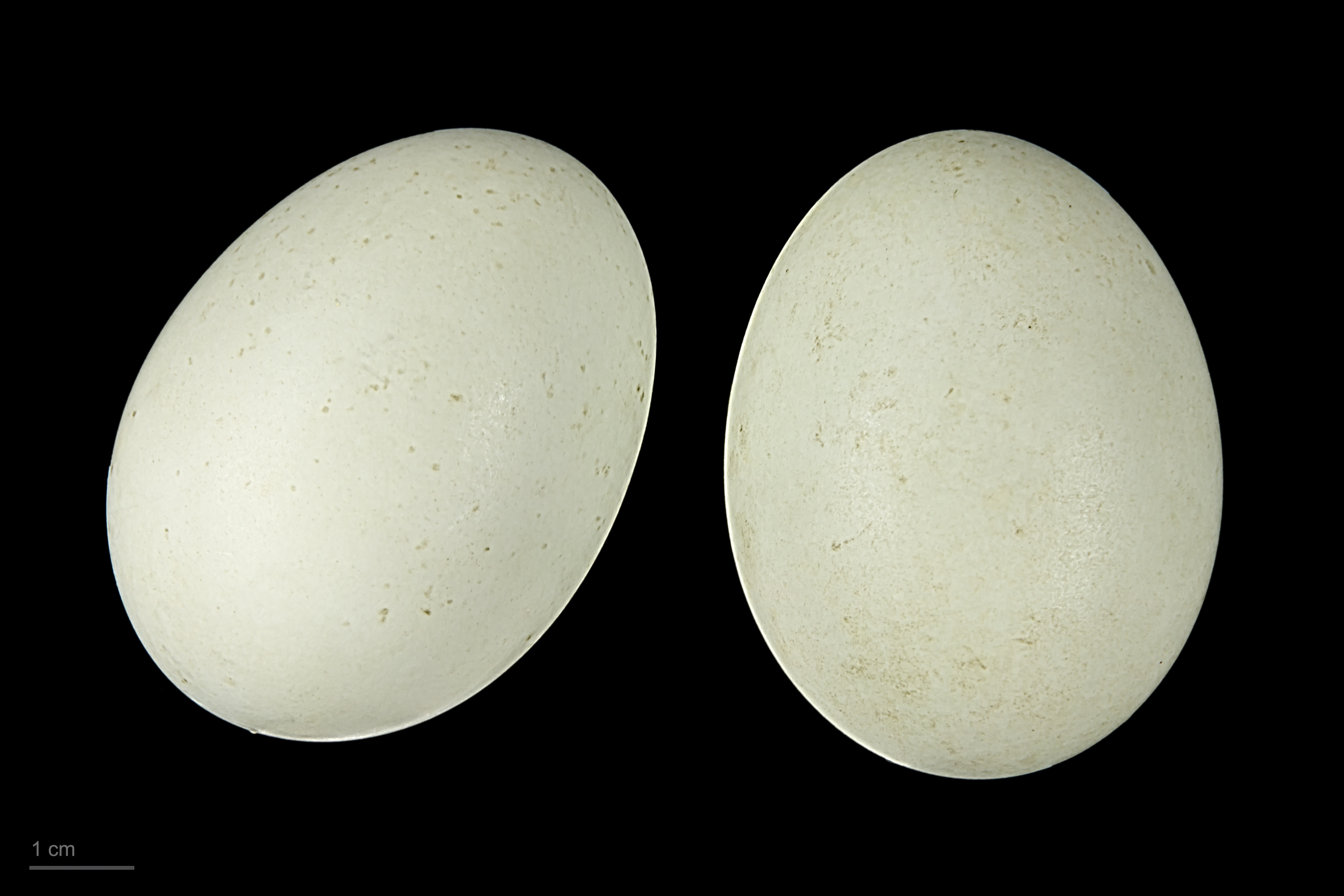 Eggs of Barrow's goldeneye Two specimens of the same spawn ; collection of Jacques Perrin de Brichambaut.